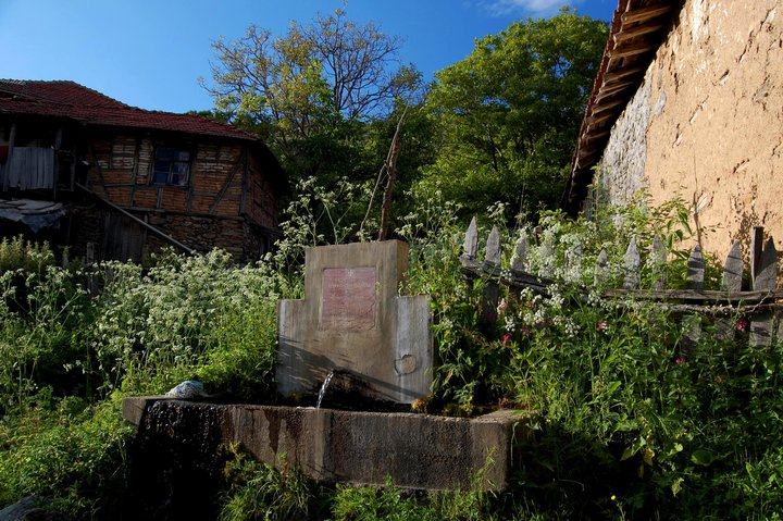 Village Shipkovica in Plackovica